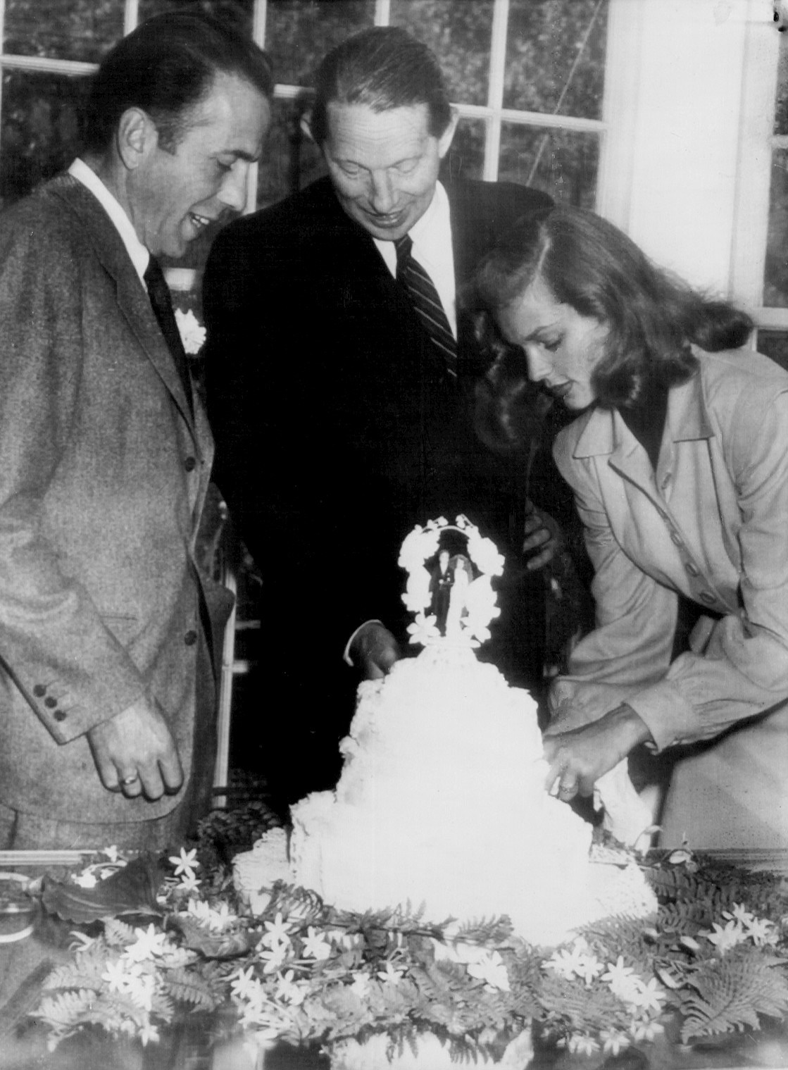 Photo of the wedding of Humphrey Bogart and Lauren Bacall in 1945. Caption reads as follows: Bogart–Bacall Wedding Cake Grouped around their wedding cake, shortly after the ceremony at Mansfield, O., are Humphrey Bogart (left), Louis Bromfield, best man, and Lauren Bacall, the bride.